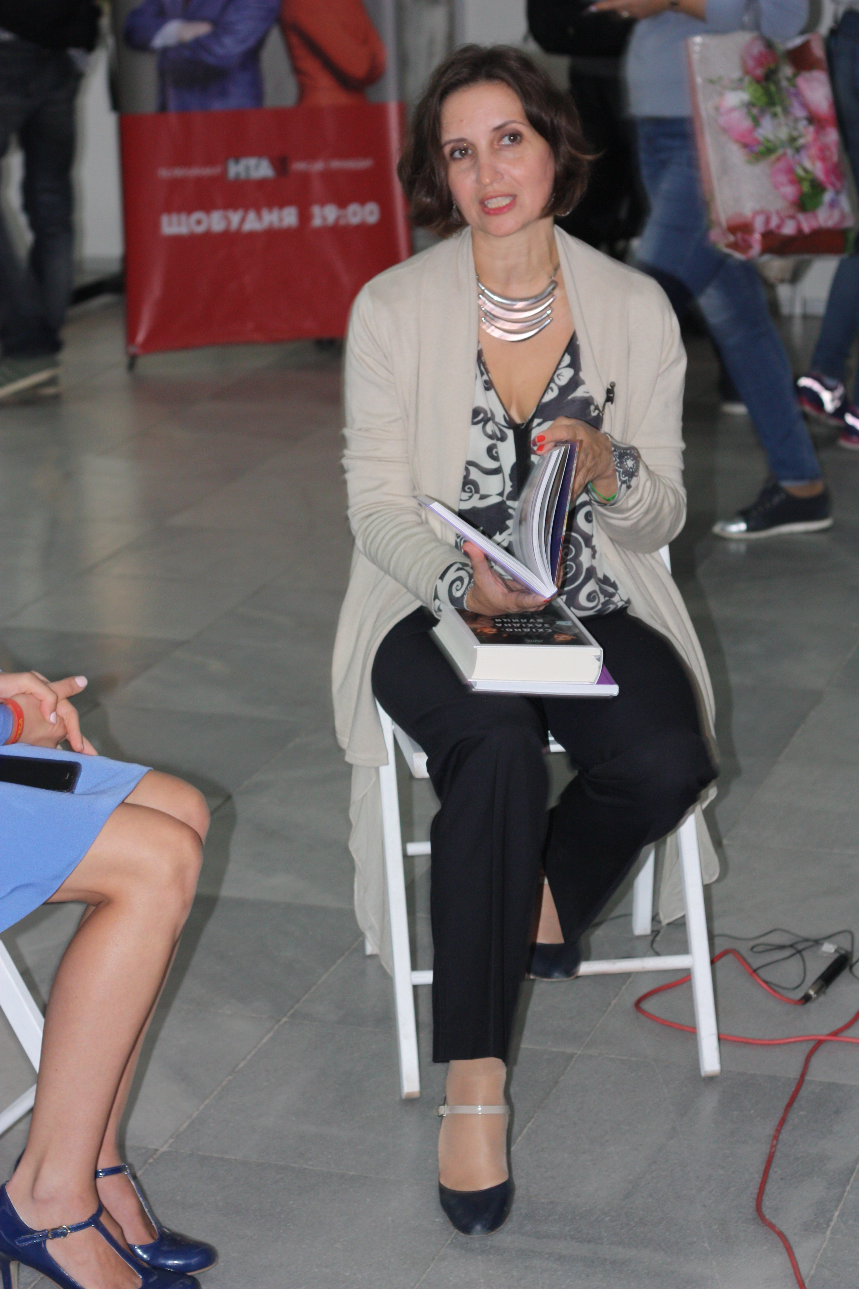 Maryana Savka on Publishers' Forum in Lviv 2017